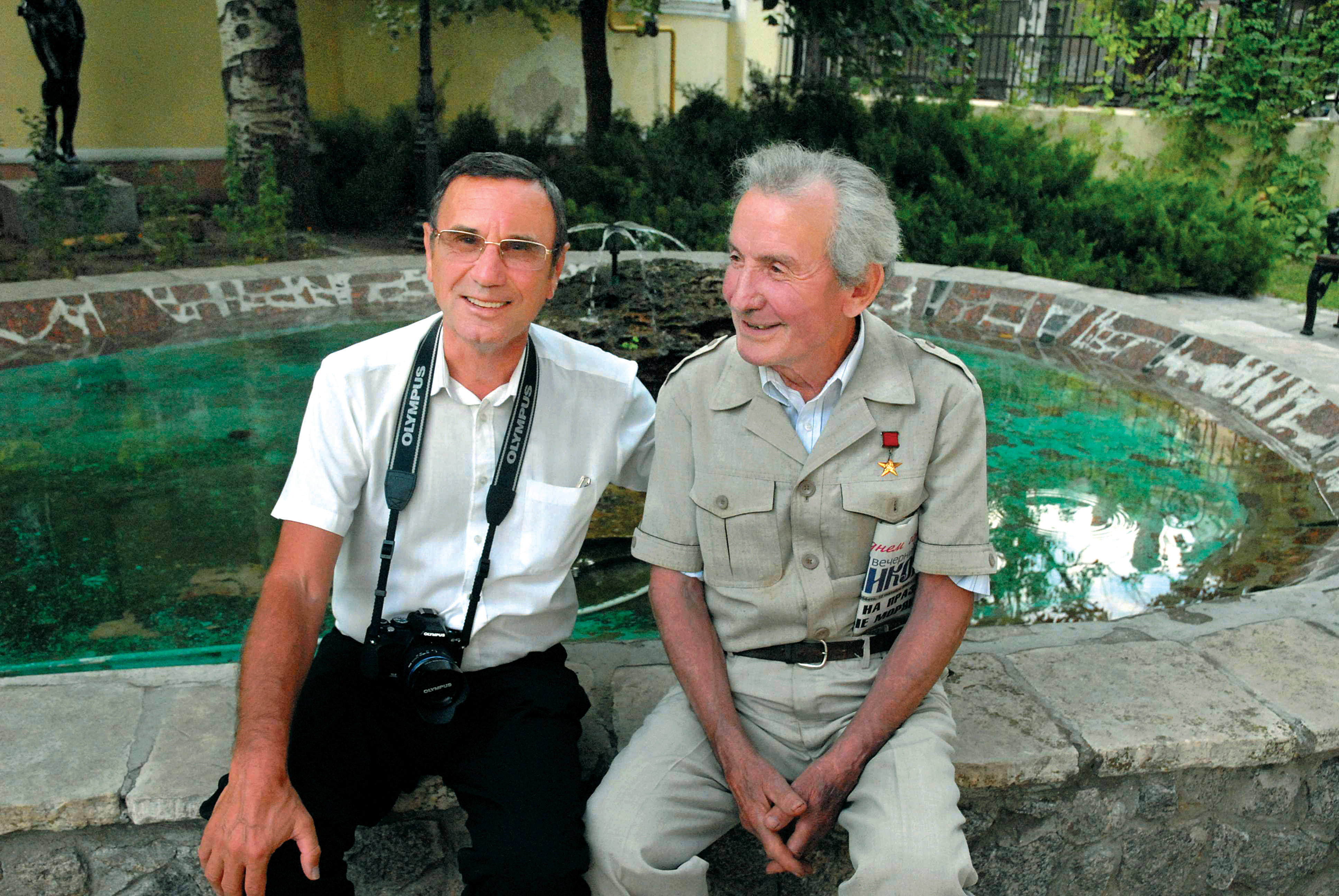 Ukrainian writer and journalist Valery Babich and Deputy Director of the Chernomorsky Shipbuilding Yard by Shipyard Ivan Winnick